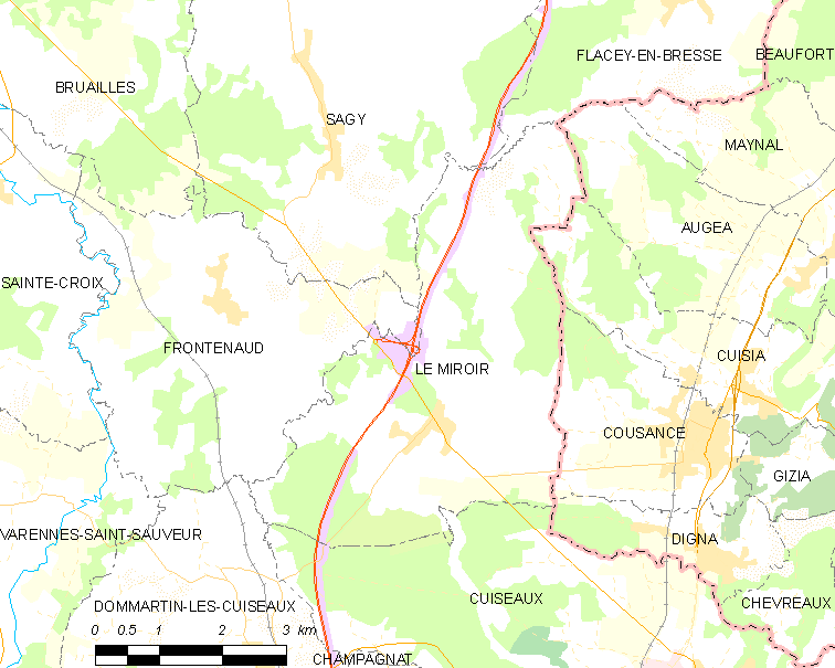 Map of French municipality